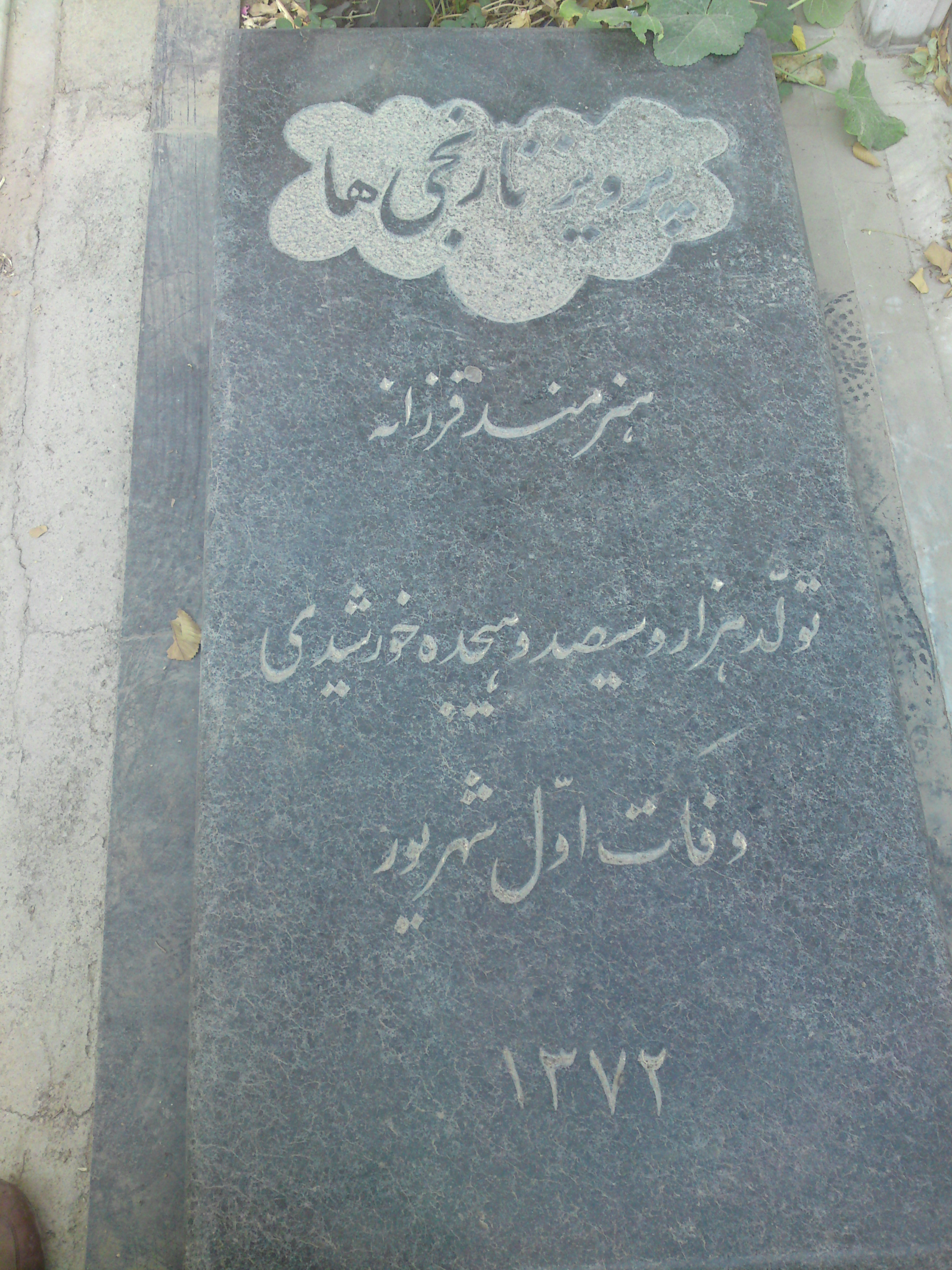 Tomb of Parviz Narenjiha